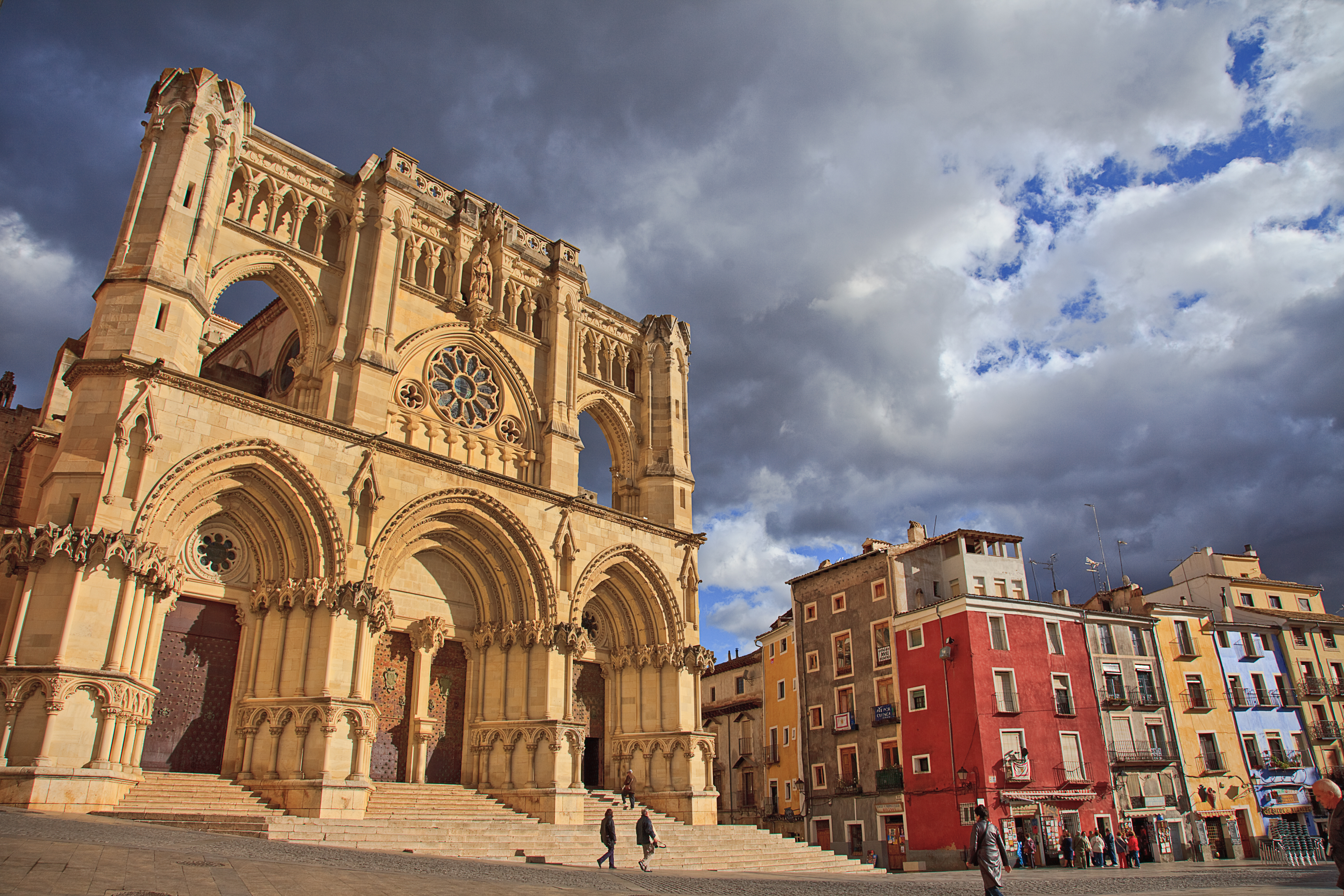 Cuenca. Cathedral. Castilla - La Mancha. Spain